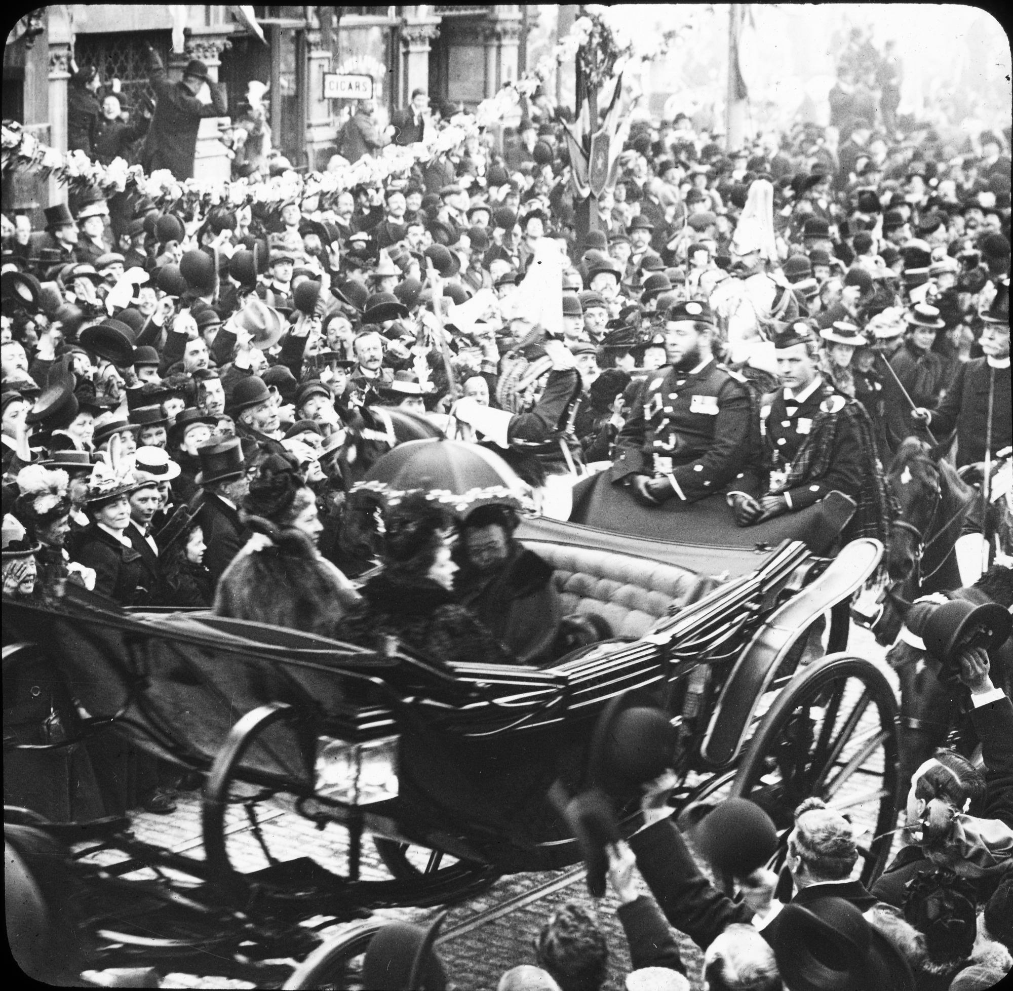 Queen Victoria in carriage with others, at Grafton Street, Dublin. Only last week I was watching a BBC show presented by Michael Portillo where he shares items from the British national archive. In this particular show he was focusing on assassination attempts on Queen Victoria (there were a few). My point, I hear you say - The burly gent in the rear of the carriage, I saw him a few times in the clips selected by Mr Portillo, I am fully expecting his name and vital statistics!! [/photos/91549360@N03/ OwenMacC] identified the two ladies (other than Queen Victoria) in the carriage, they are the Queens daughters, Princess Christian and Princess Beatrice. This was on the occasion of Queen Victoria's last visit to Ireland it was one of her last ceremonious public appearances as she was to pass away the following year. Owen also identified the date as shown below. I knew we would get the names of the two Highland Gillies after extensive work [/photos/91549360@N03/ OwenMacC] identified the men as William Brown (right) and C. Thomson. William Brown was a nephew of the infamous John Brown who was closely connected to the Queen. People Identified Klaxon on full volume!! Photographer: Thomas H. Mason Collection: The Mason Photographic Collection Date: 4th April 1900 NLI Ref: M57/1 You can also view this image, and many thousands of others, on the NLI’s catalogue at